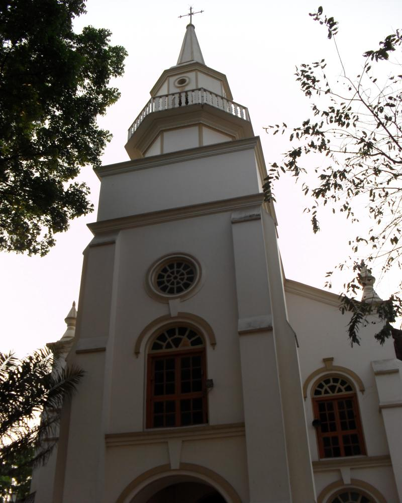 Cathedral of Our Lady of the Holy Rosary, Bandel Road, Patharghatta, Old Chittagong. The church is part of the oldest Christian settlement in Bengal, tracing its origins to 16th-century Portuguese rule in the region. The modern cathedral was built during the British Raj in 1843 and extensively renovated in 1933.